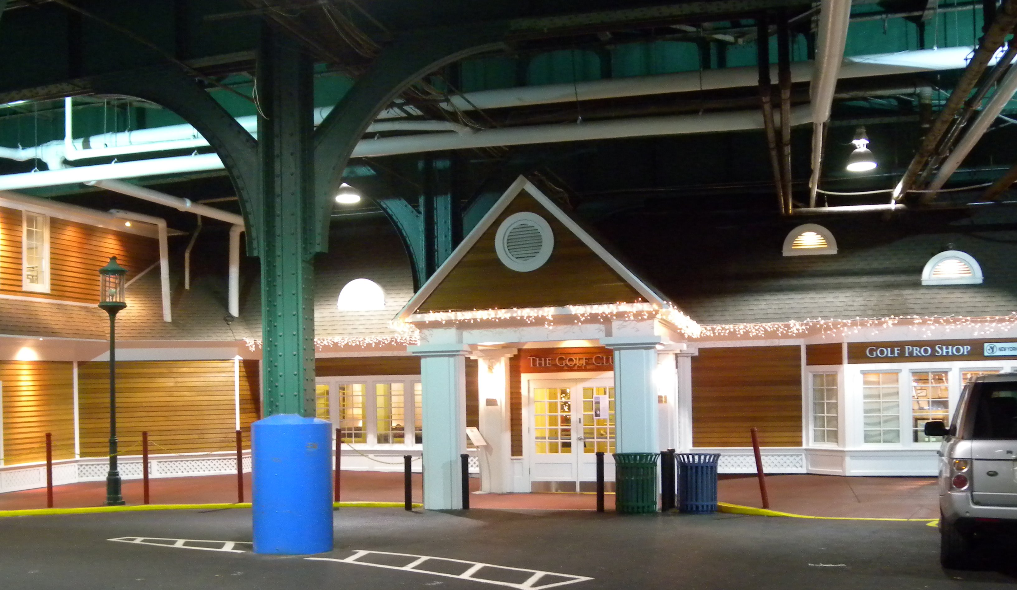 Looking west at the golf club in southern Chelsea Piers.